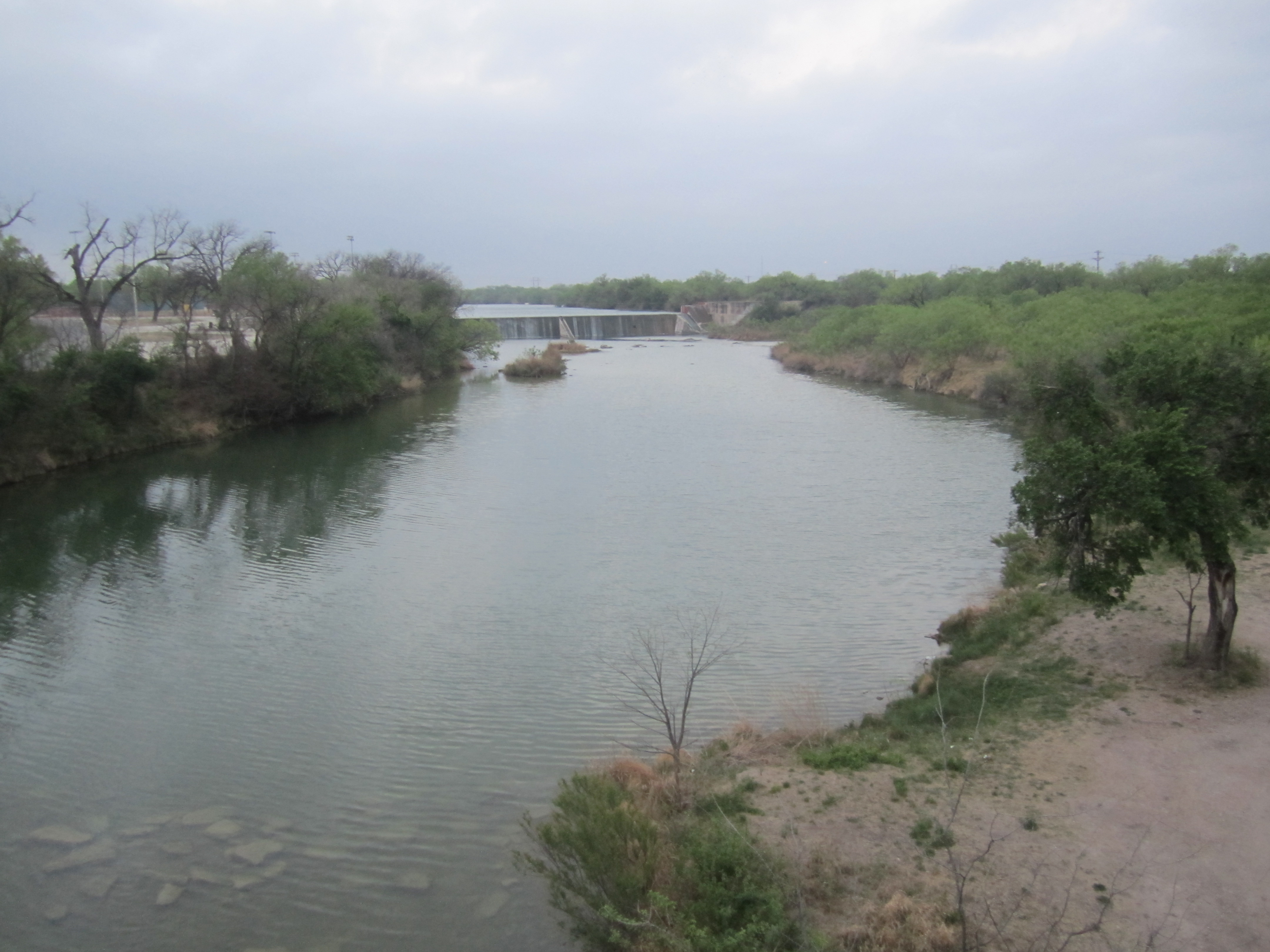 I took photo with Canon camera in San Angelo, TX.